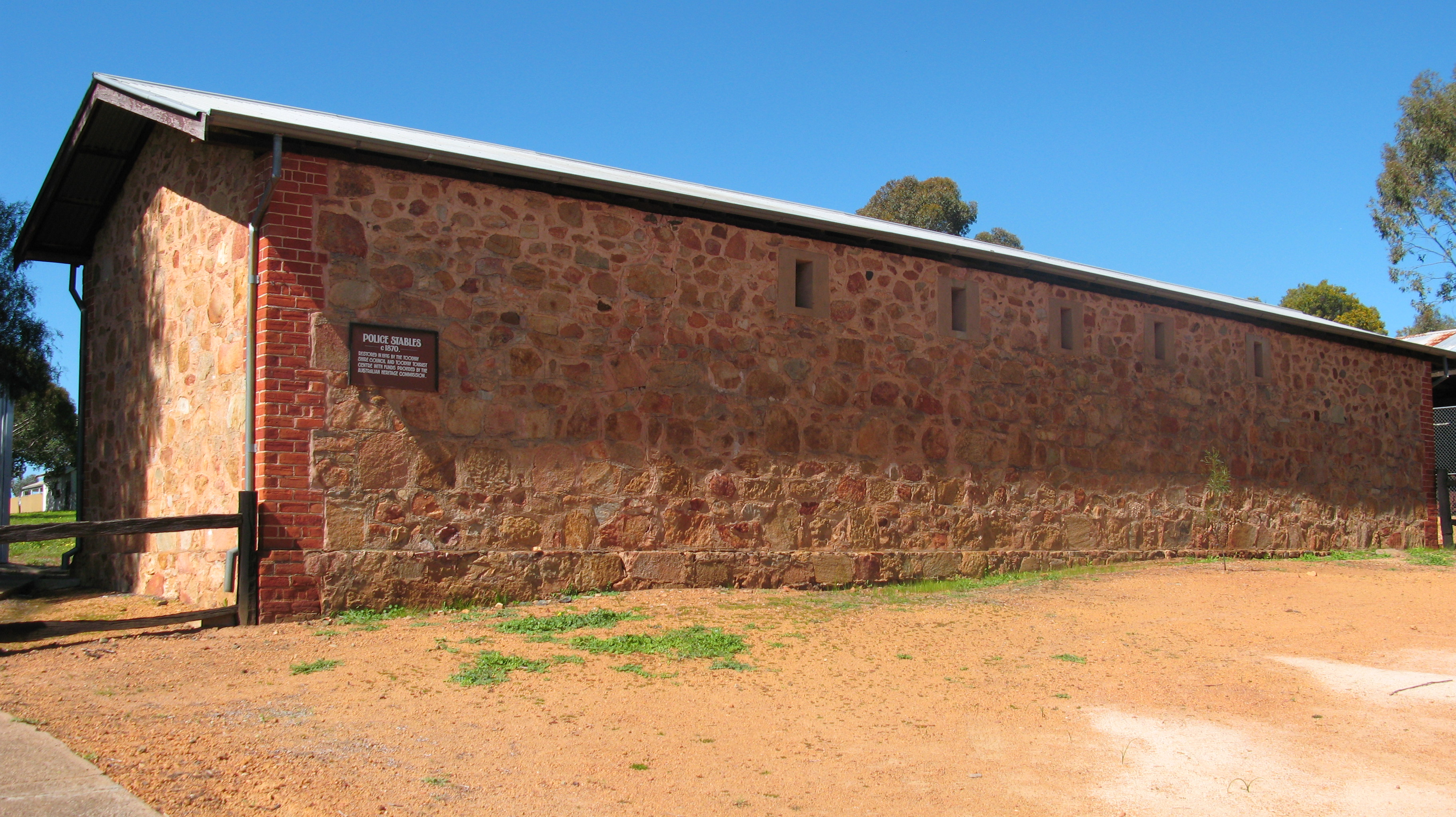 Clinton Street, Toodyay, Western Australia. Built 1891